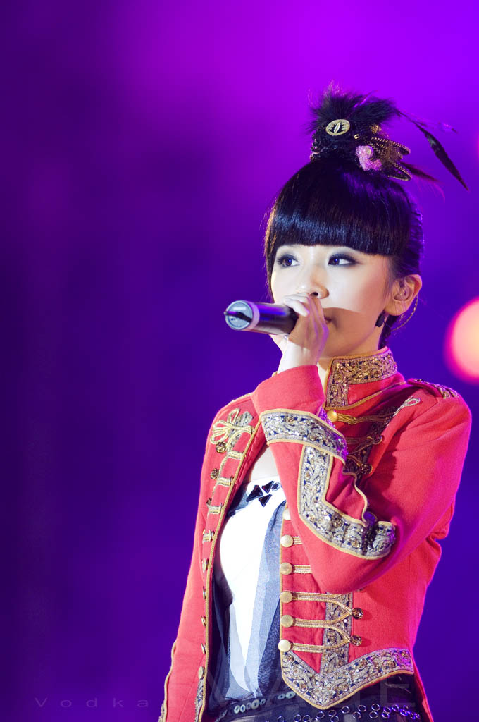 Hebe (from S.H.E) performing at Stadium Merdeka in Kuala Lumpur, Malaysia on December 1, 2007 for S.H.E's Perfect 3 Tour.Bân-lâm-gú: Hebe(Tiân hok-tsin;田馥甄) î 2007-nî 12-gue̍h 1-ji̍t, Má-lâi-se-a Î-tōng Siânn-pó ián-tshiùnn-huē.